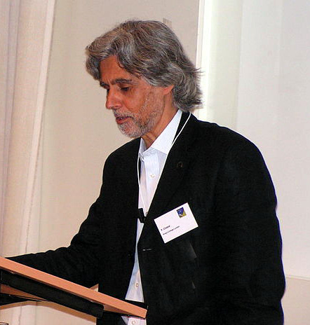 Patrick Chabal, ECAS 2007, Leiden (The Netherlands), organized by African Studies Centre, Leiden